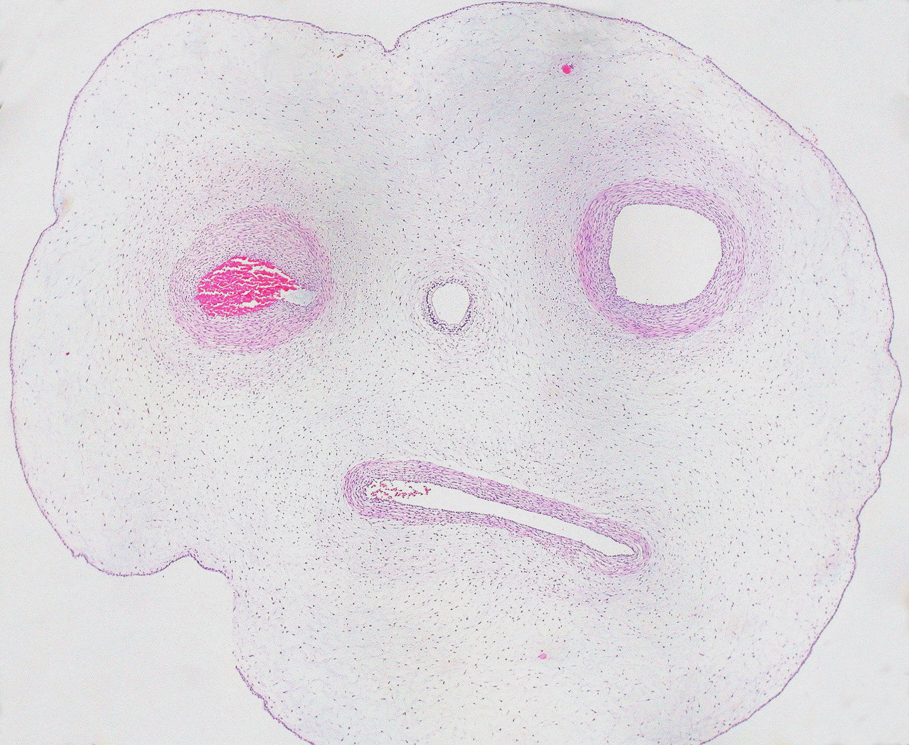 The Umbilical Cord Top right and top left: umbilical artery, bottom: umbilical vein, middle: remnant of allantois.